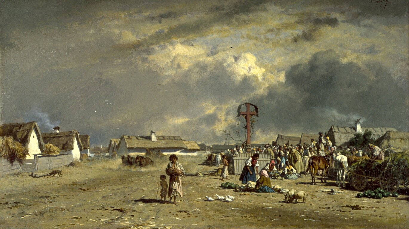 Szolnok, located on the Theiss River in central Hungary, was an important market center of 11,000 inhabitants in the mid 19th century. Pettenkofen first visited it in 1851, and returned repeatedly over the next 30 years. In this work the sunlight has broken through the cloudy sky to illuminate a colorful marketplace surrounded by low houses with white walls and thatched roofs. On the right, near a wayside cross enclosed by a picket fence, peasants mill about the vegetable stands and wagons. Several piles of large green melons are visible. Livestock forage freely in the dusty terrain. Close to the foreground is a bedraggled gypsy nursing an infant followed by another child.